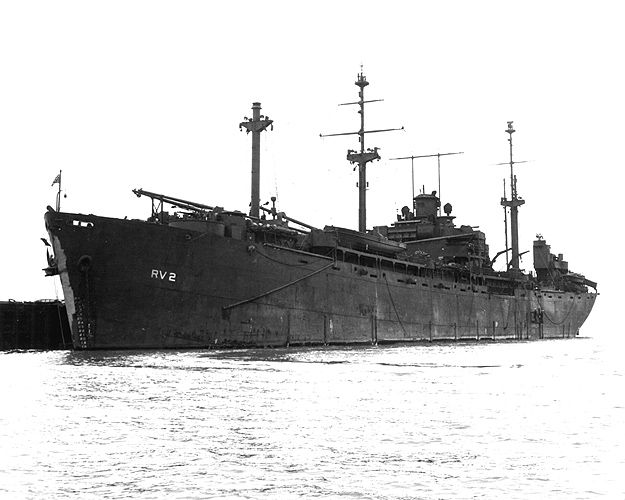 USS Webster (ARV-2) moored pierside at Bethlehem Steel Key Highway yard and Fort McHenry, Baltimore, MD., circa March 1945. US Navy photo from the collections of the US Navy Memorial.